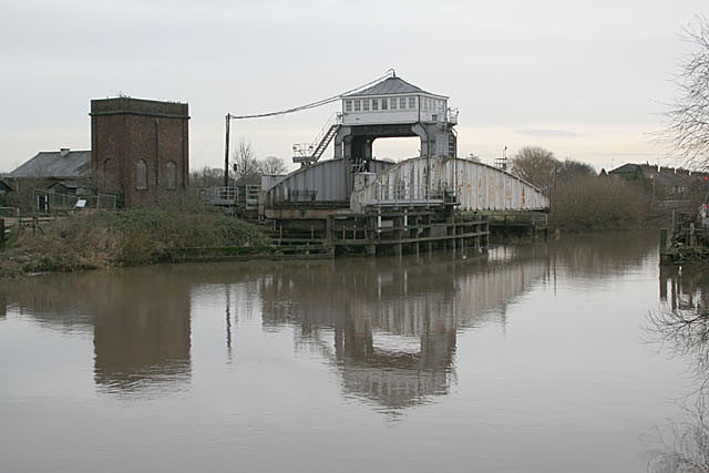 Selby railway swing bridge With no rail service on Boxing Day, the bridge has been swung to leave the river free for navigation throughout the day. This bridge used to be a thorn in the flesh of the East Coast Main Line as it required a severe speed restriction. For the electrification of the route, a new section of line was built which bypasses Selby.